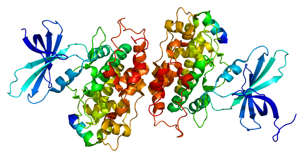 Structure of the GSK3B protein. Based on PyMOL rendering of PDB 1gng.